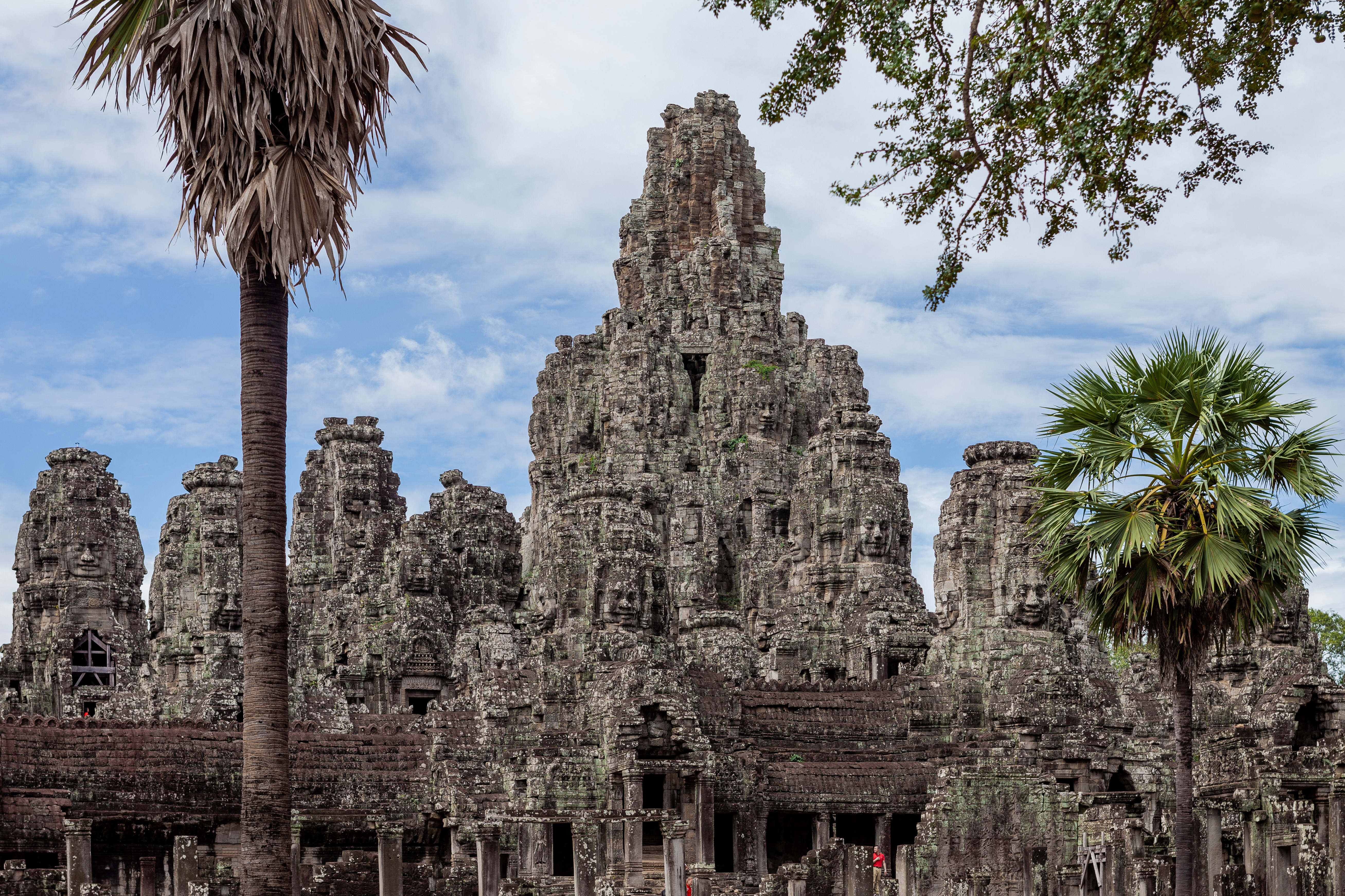 The Bayon (Khmer: ប្រាសាទបាយ័ន, Prasat Bayon) is a richly decorated Khmer temple at Angkor in Cambodia. Built in the late 12th or early 13th century as the state temple of the Mahayana Buddhist King Jayavarman VII (Khmer: ព្រះបាទជ័យវរ្ម័នទី ៧), the Bayon stands at the centre of Jayavarman's capital, Angkor Thom (Khmer: អង្គរធំ).[1][2] Following Jayavarman's death, it was modified and augmented by later Hindu and Theravada Buddhist kings in accordance with their own religious preferences.